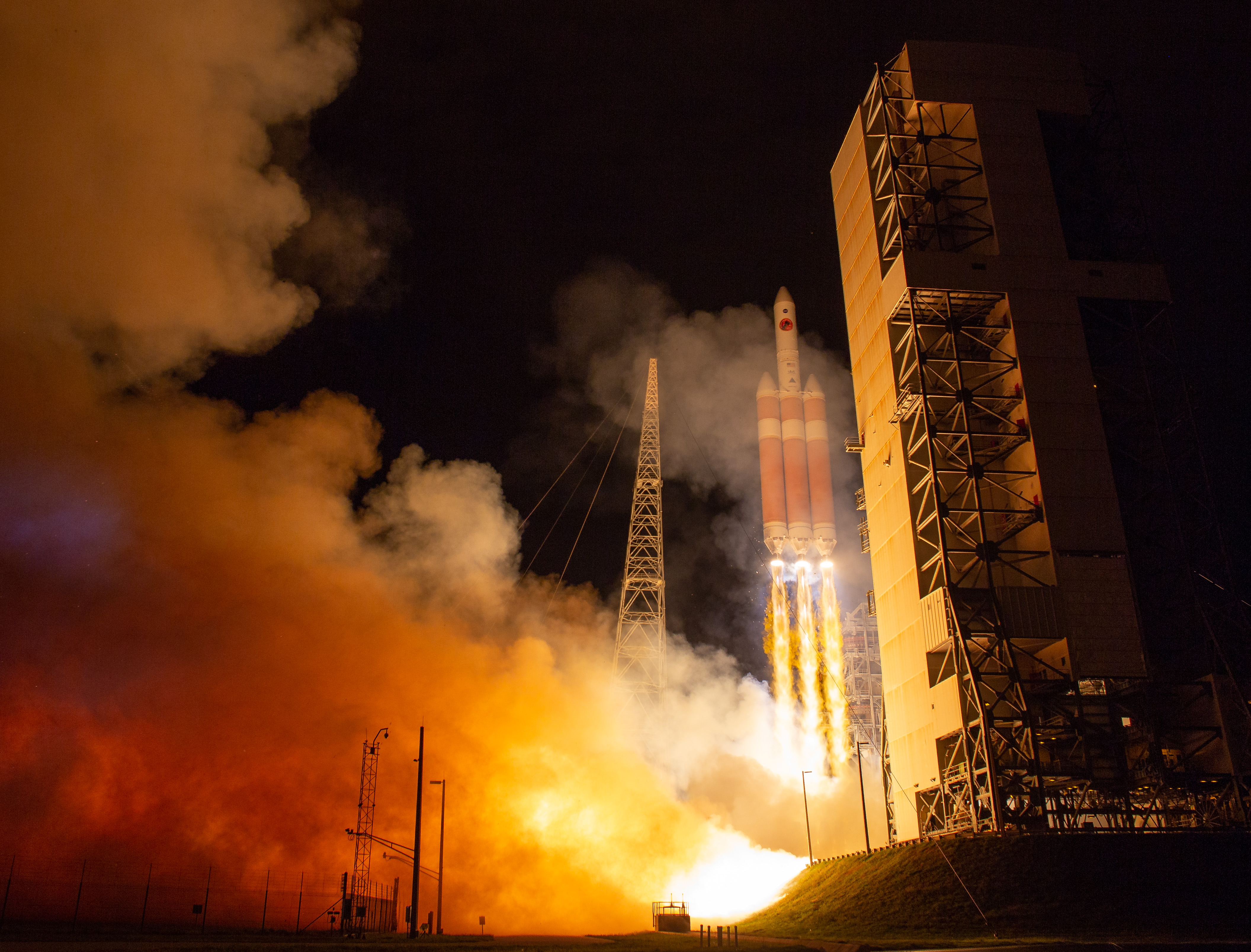 The United Launch Alliance Delta IV Heavy rocket launches NASA's Parker Solar Probe to touch the Sun, Sunday, Aug. 12, 2018 from Launch Complex 37 at Cape Canaveral Air Force Station, Florida. Parker Solar Probe is humanity’s first-ever mission into a part of the Sun’s atmosphere called the corona. Here it will directly explore solar processes that are key to understanding and forecasting space weather events that can impact life on Earth. Photo Credit: (NASA/Bill Ingalls)